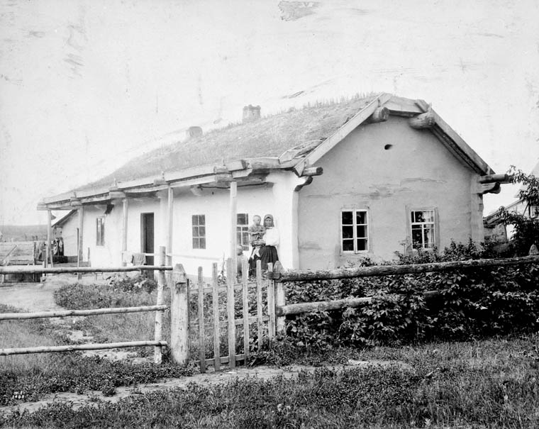 A typical Doukhobor residence, Veregin, Saskatchewan